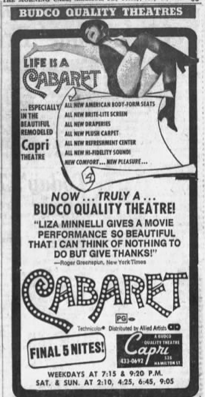 Capri Theater advertisement for the film Cabaret (1972) - 12 May 1972 Morning Call, Allentown PA